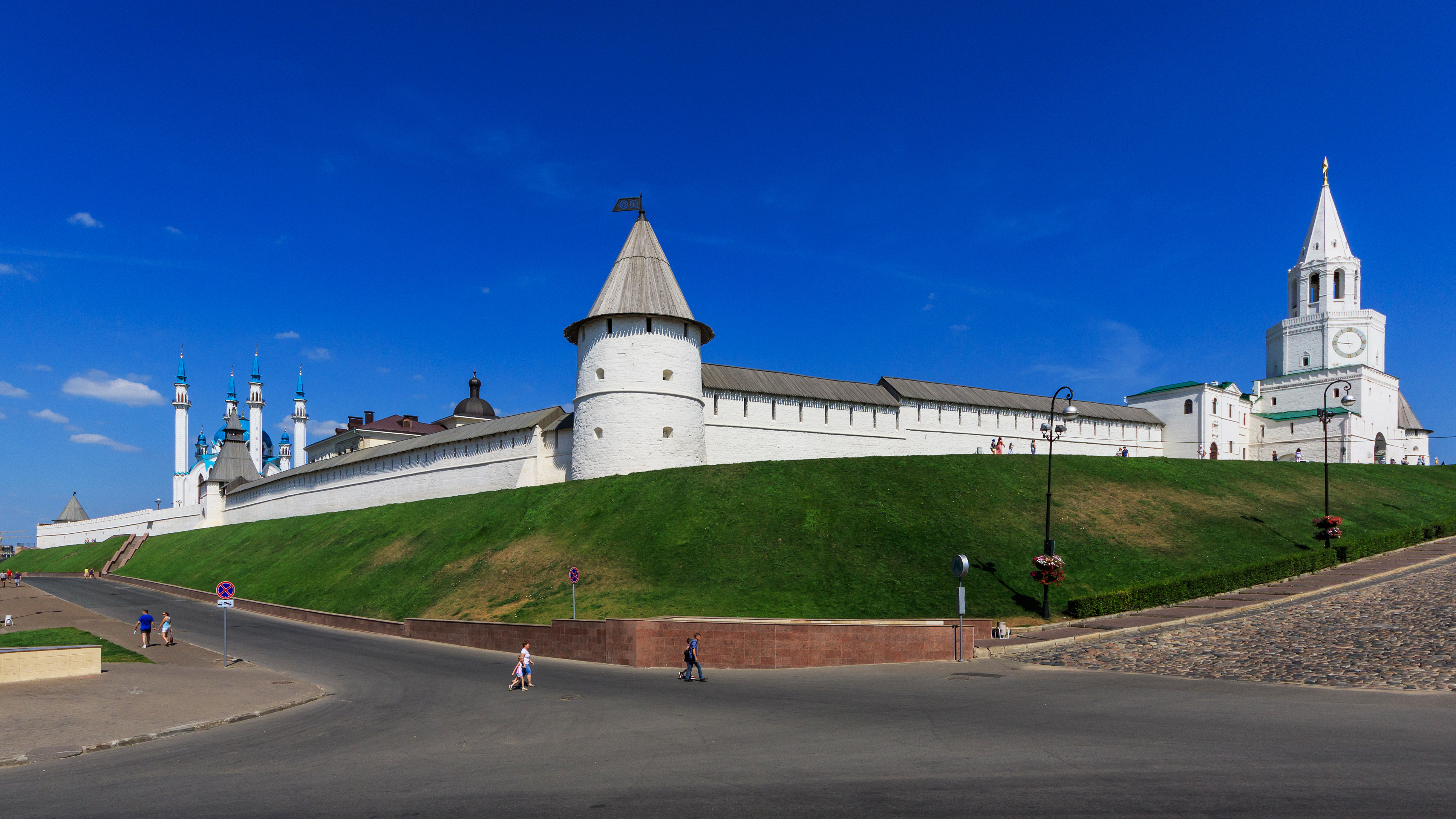 Exterior view of the Kremlin in Kazan, Russia. In the foreground: an entrance of Kremlyovskaya metro station.